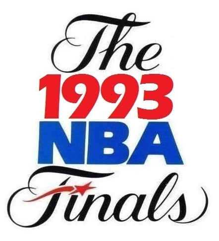 The text logo for the 1993 NBA Finals